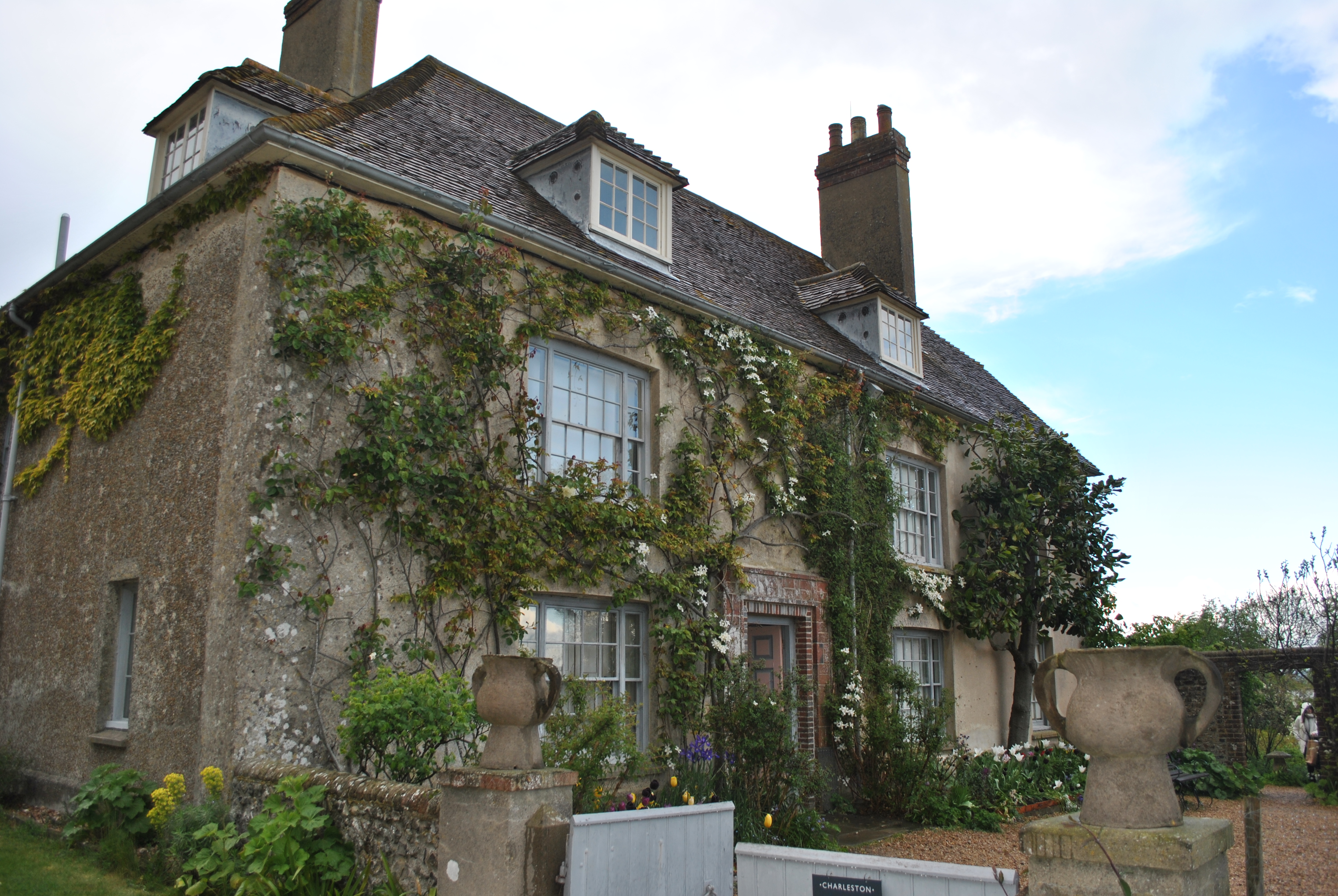 Charleston Farmhouse, Firle, 2017, Originally published in Queer Places, Vol. 2.1: Retracing the Steps of LGBTQ people around the World